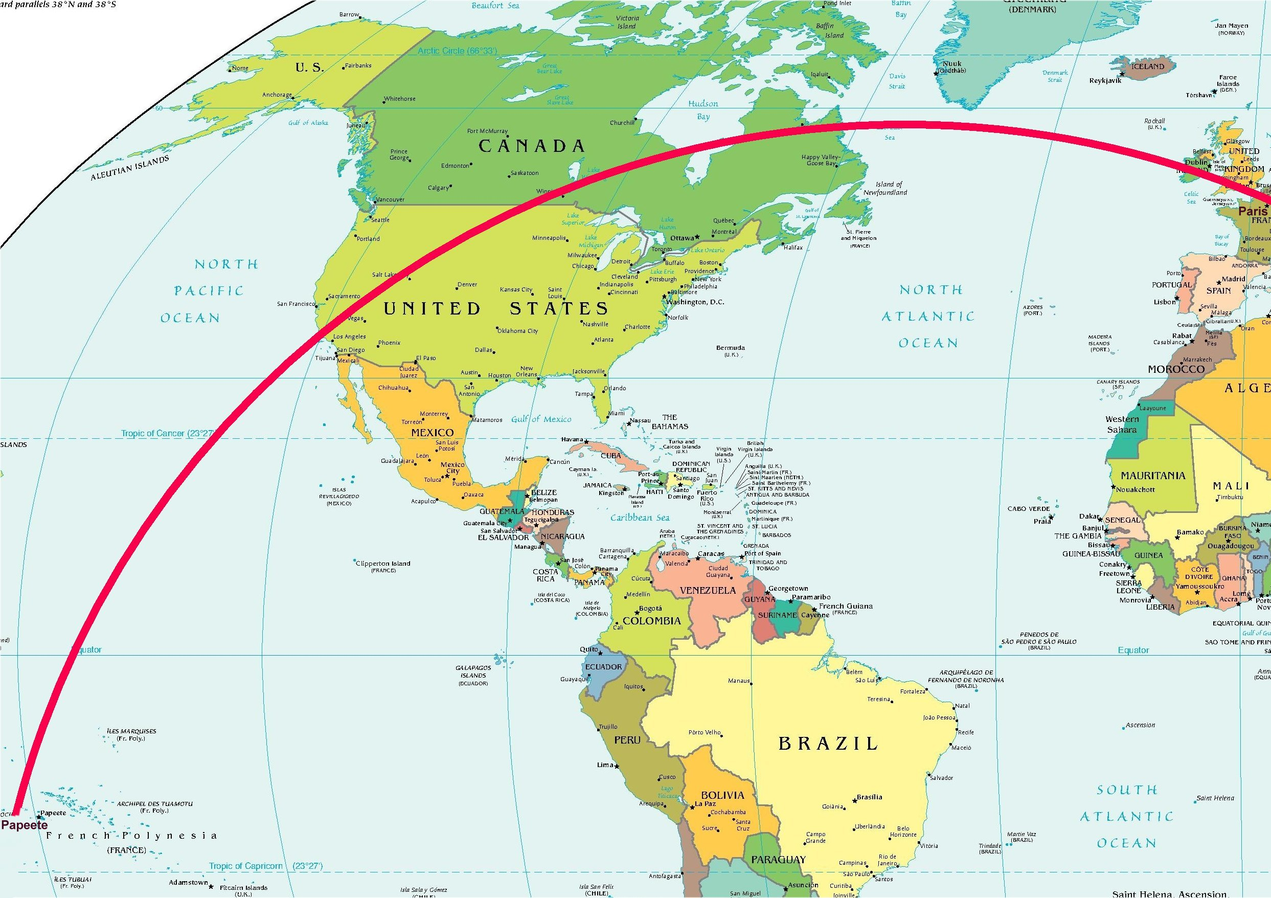 Flight path TN064